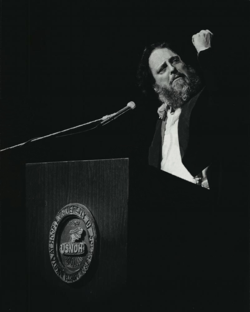 Peter Schickele in Milwaukee, February 24, 1981